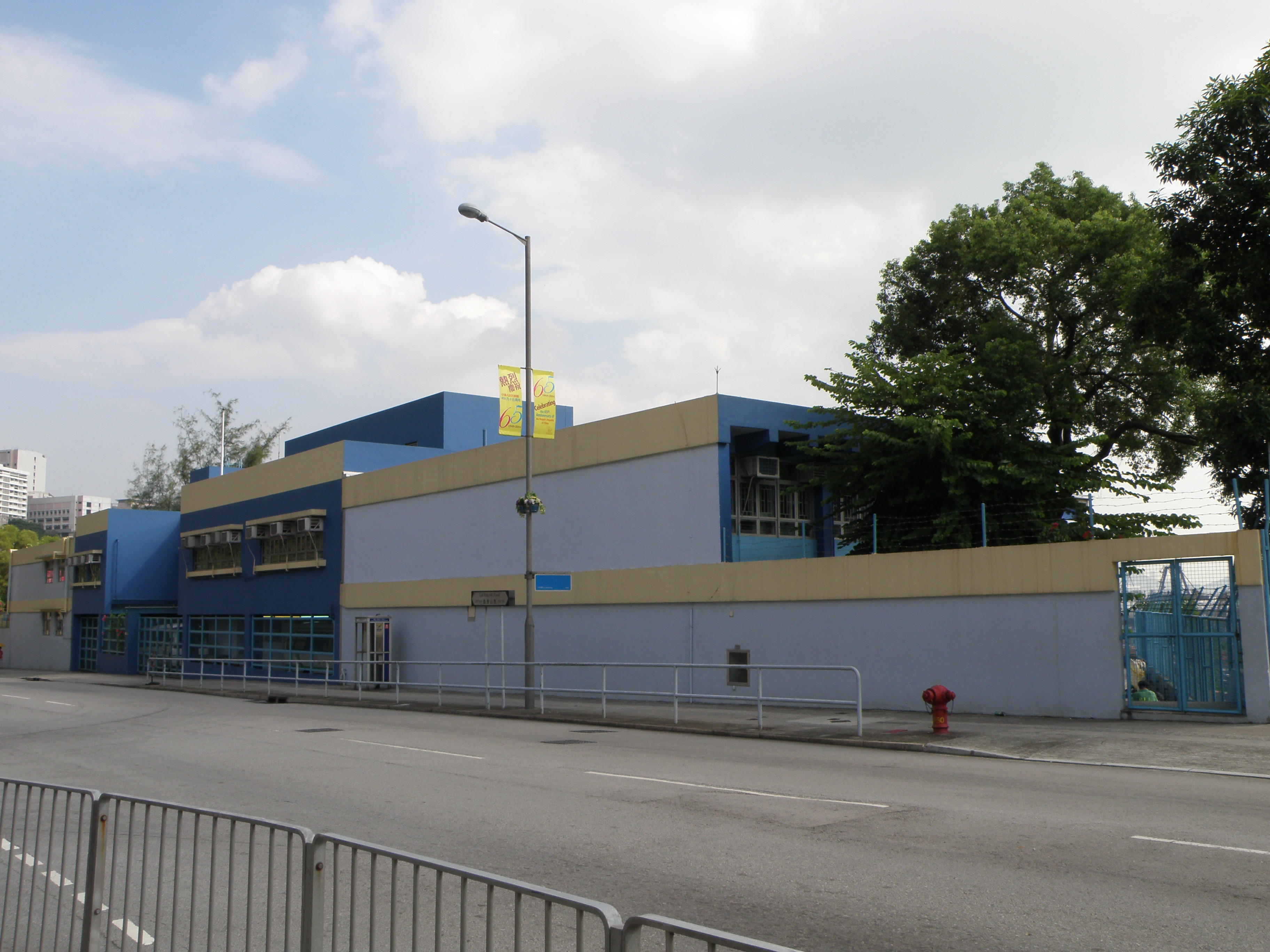 Hong Chi Winifred Mary Cheung Morninghope School in Lai King, Hong Kong.